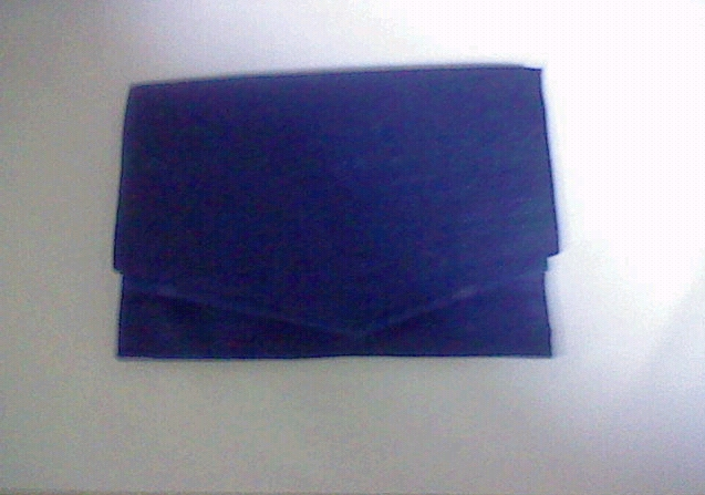 Rosary bag